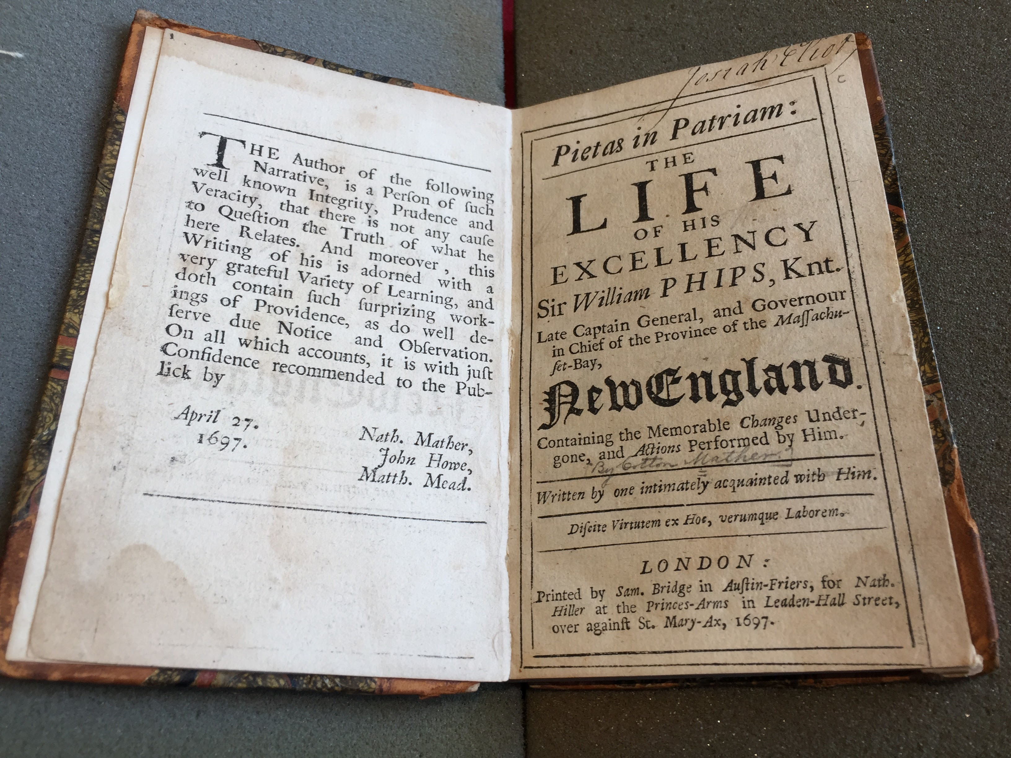 Cotton Mather chose to publish this posthumous biography of Phips anonymously in London. His uncle Nath. Mather shepherded the work into print but died in 1697, perhaps complicating CM's attempt to remain anonymous. Calef's book reveals CM as author and CM soon claimed the work.